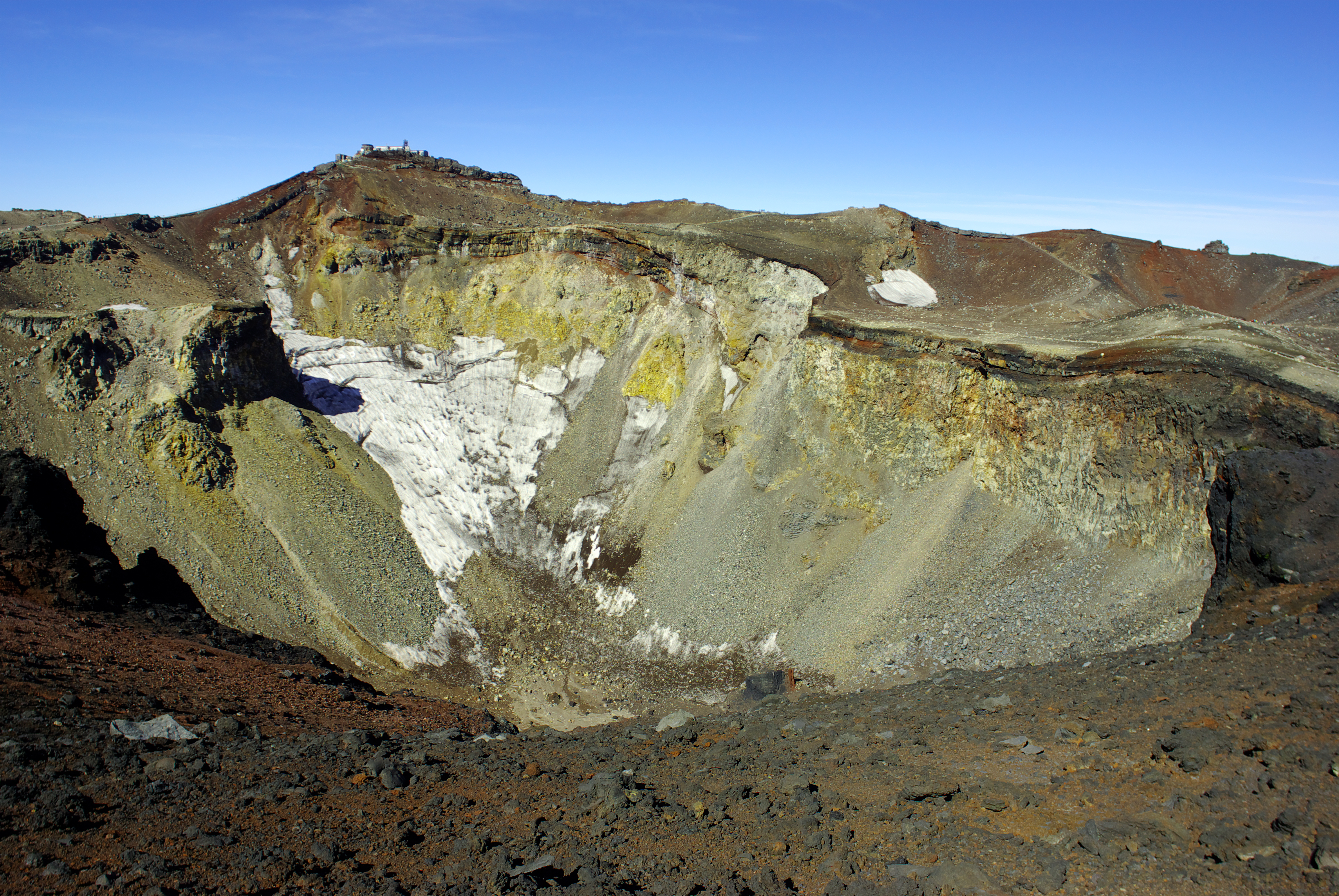 Crater of Mount Fuji and Kengamine.